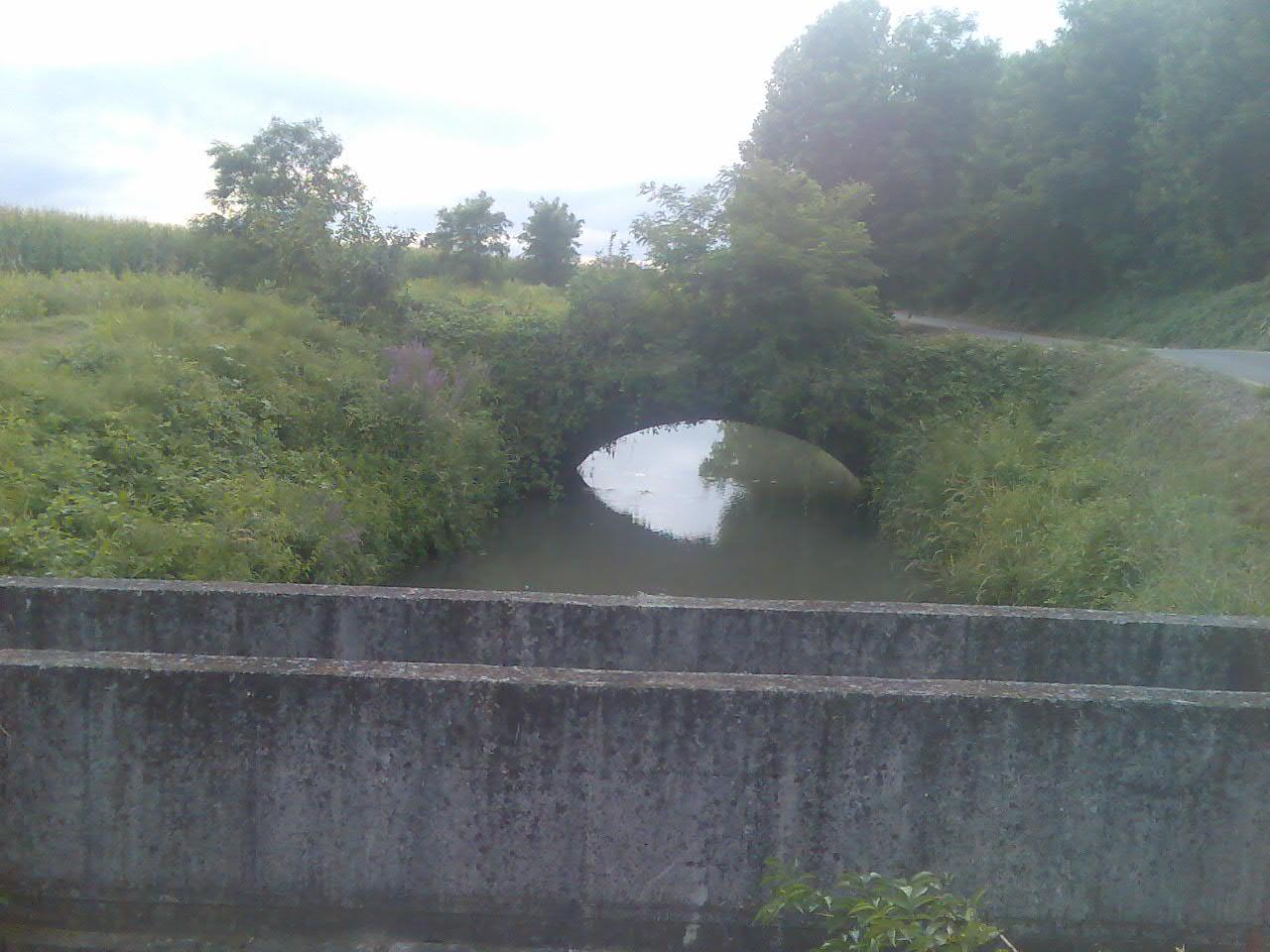 Naviglio di Cremona between Casalbuttano and Castelverde.